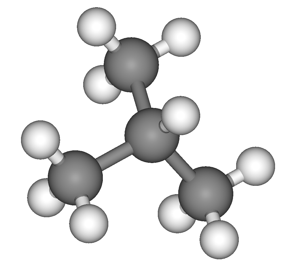 chemical structure of isobutane